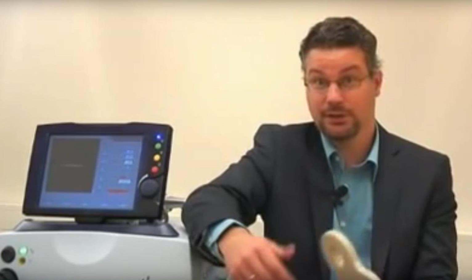 Andre Aleman, Dutch professor cognitive neuropsychiatry